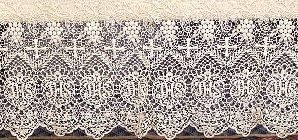 Lace of an altar cloth